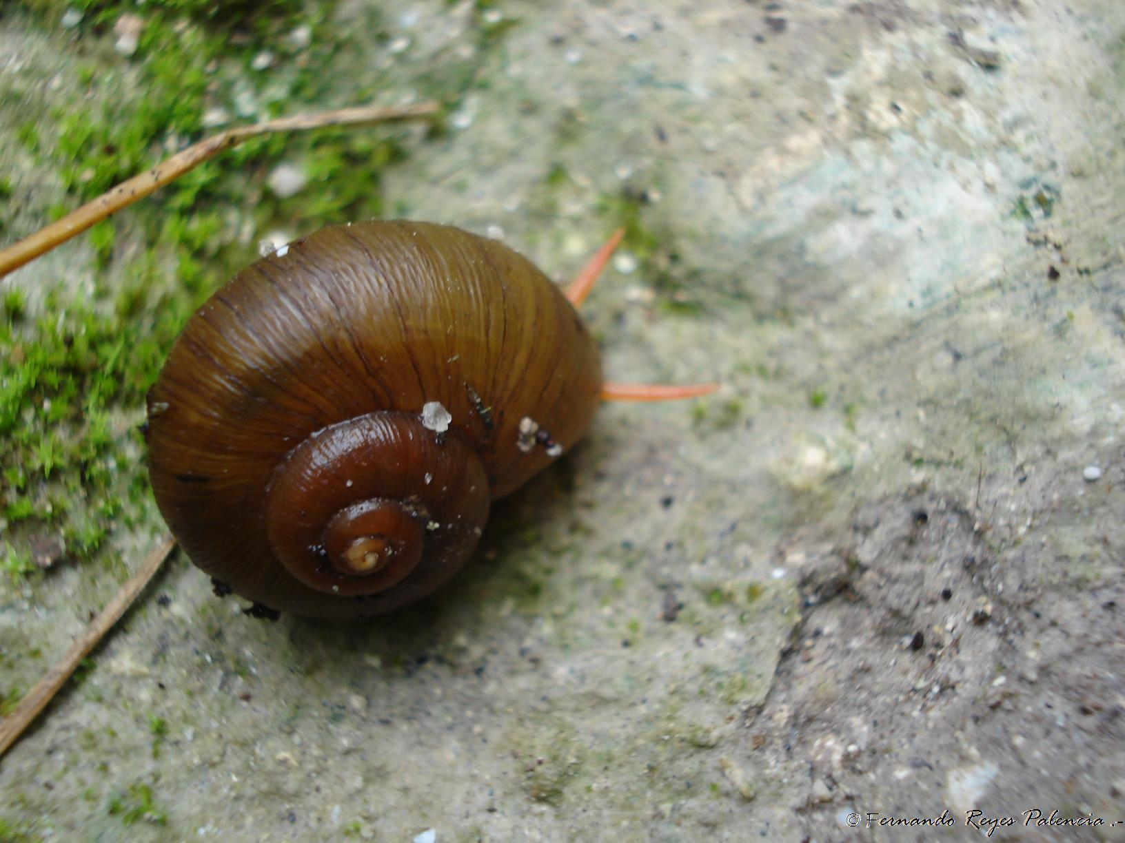 an unidentified gastropod from Guatemala